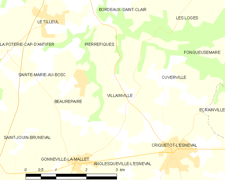 Map of French municipality Villainville